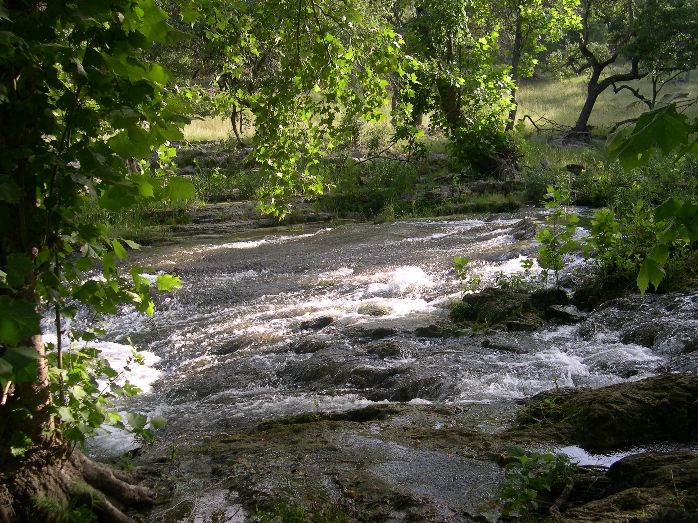 Photo of Spring Branch west of Rittiman Road in Spring Branch, Texas, taken in June 2007.